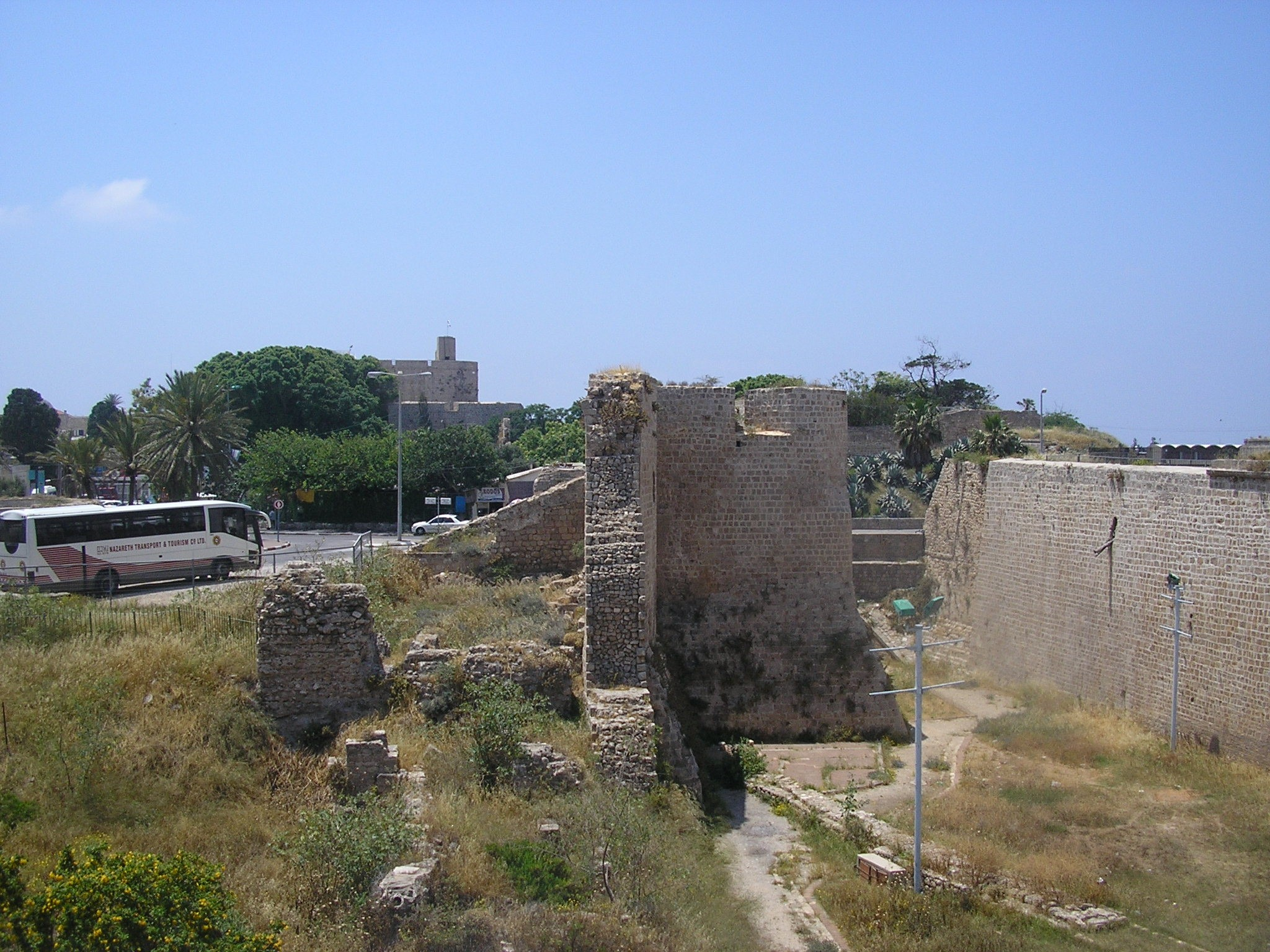 a part from the walls of acre. קטע מחומת עכו שנבנה על ידי דאהר אל עומר ובוצר על ידי אחמד אל ג'זאר.